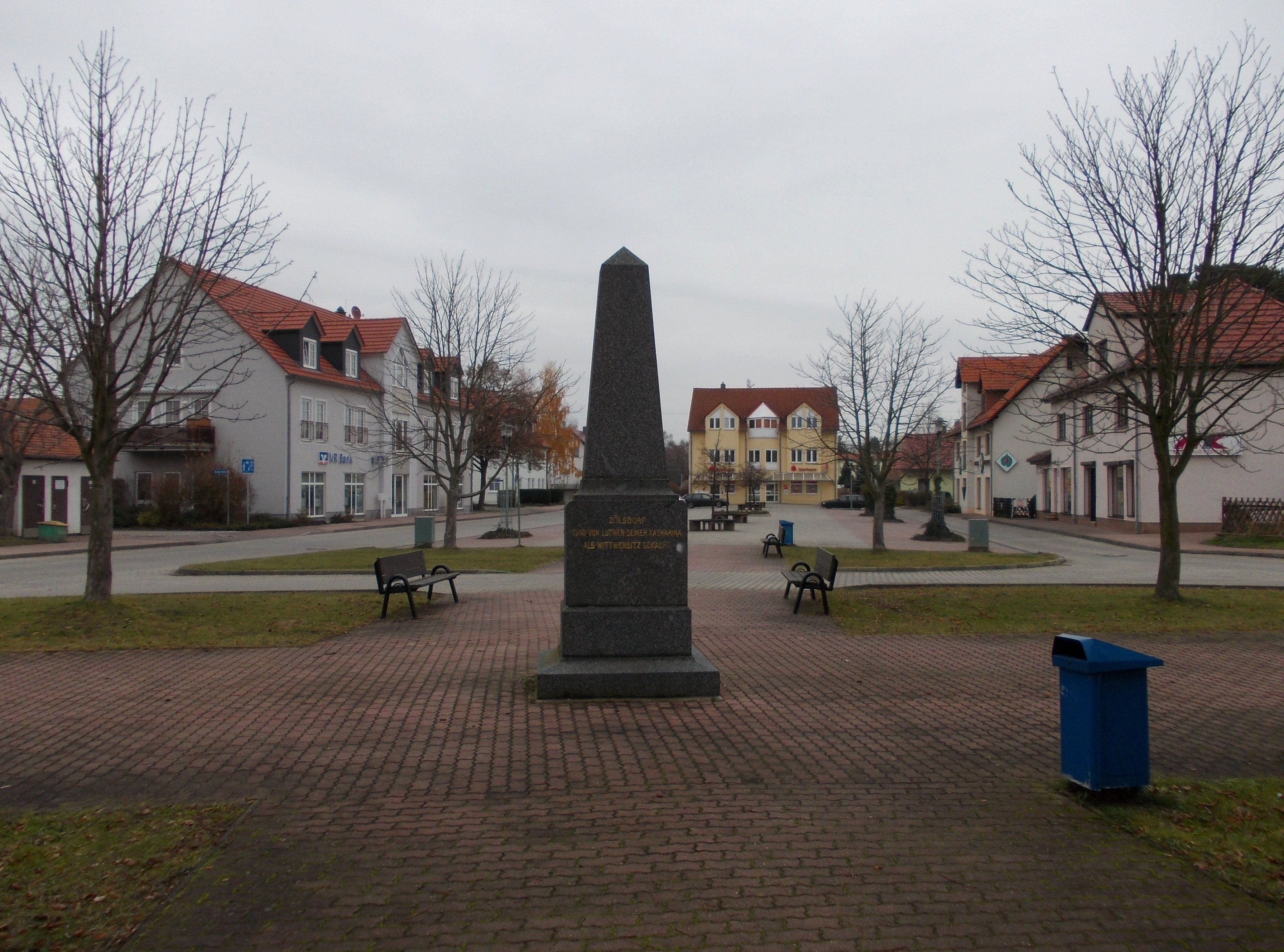 Market square with Martin Luher memorial (originally from Zölsdorf) in Neukieritzsch (Leipzig district Saxony)